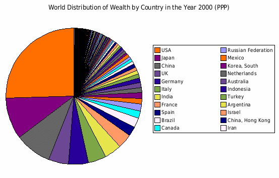 World wealth distribution by country pie chart. Data obtained from